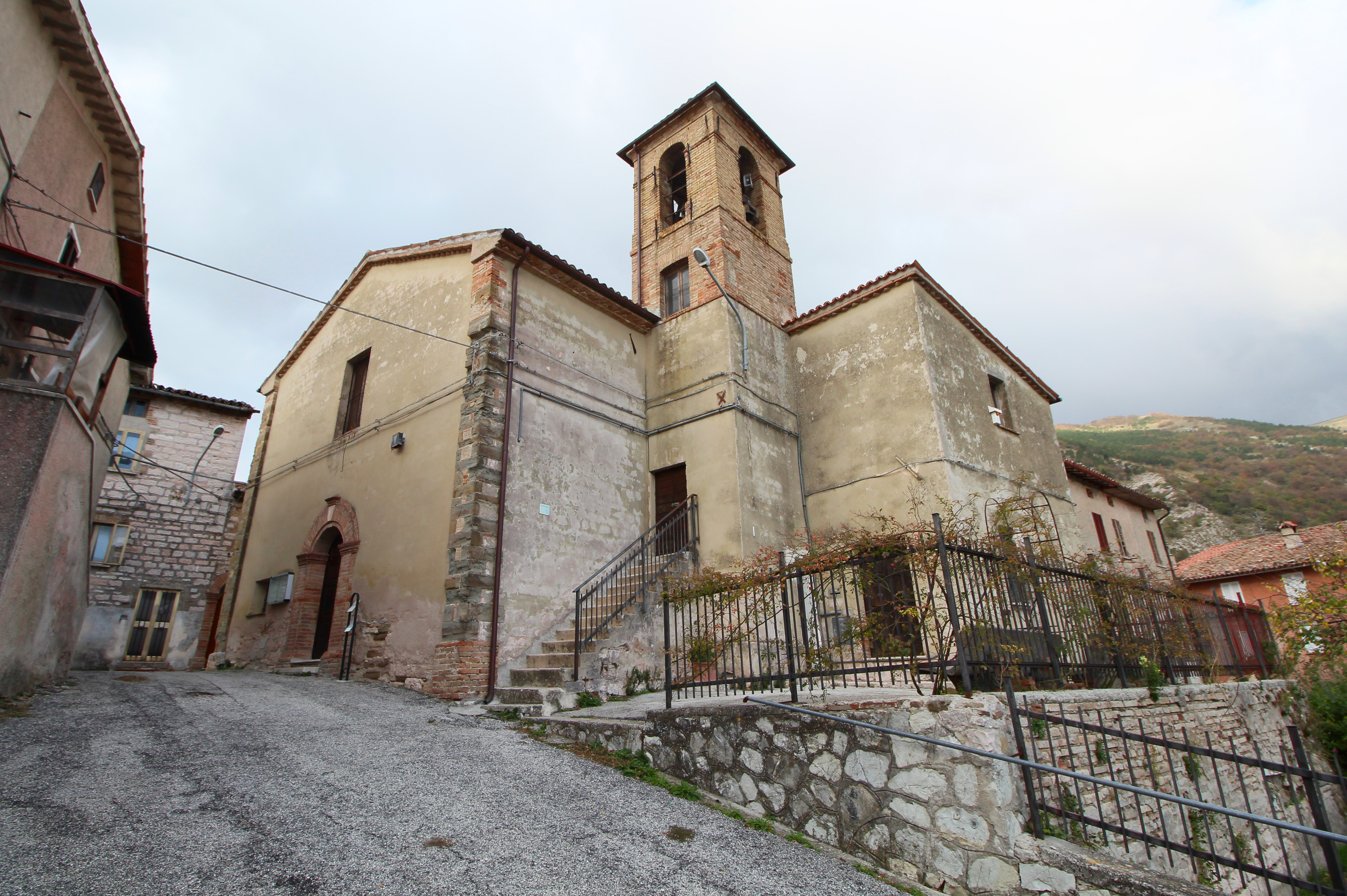 church Sant'Apollinare, Villa Col dei Canali, hamlet of Costacciaro, Province of Perugia, Umbria, Italy